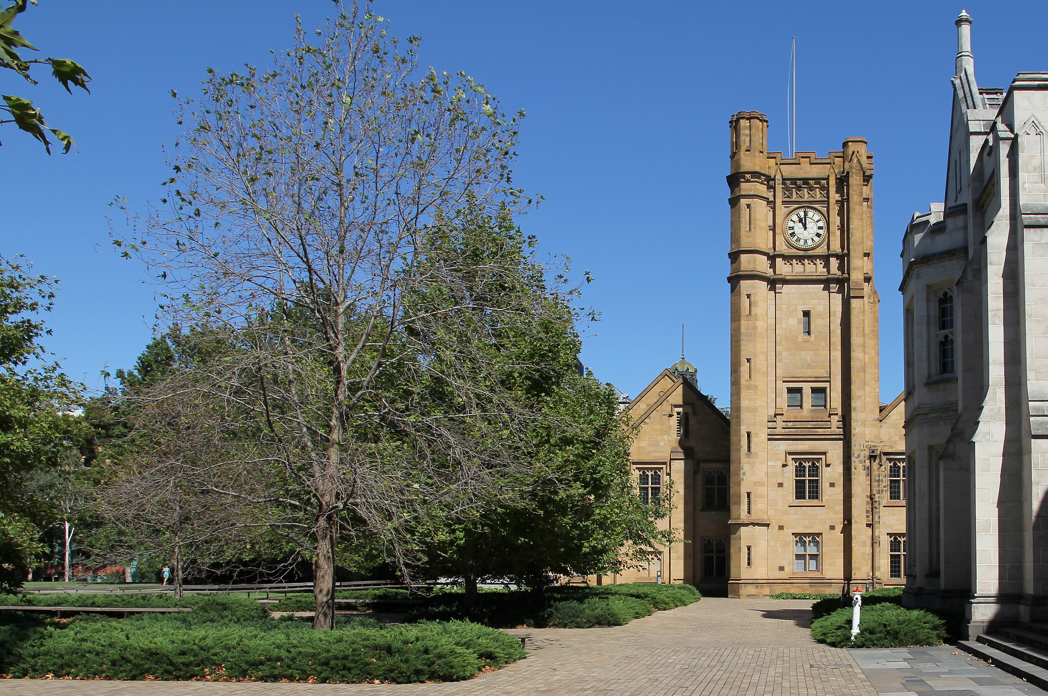 Clock Tower of Old Arts Building (Built 1854), University of Melbourne